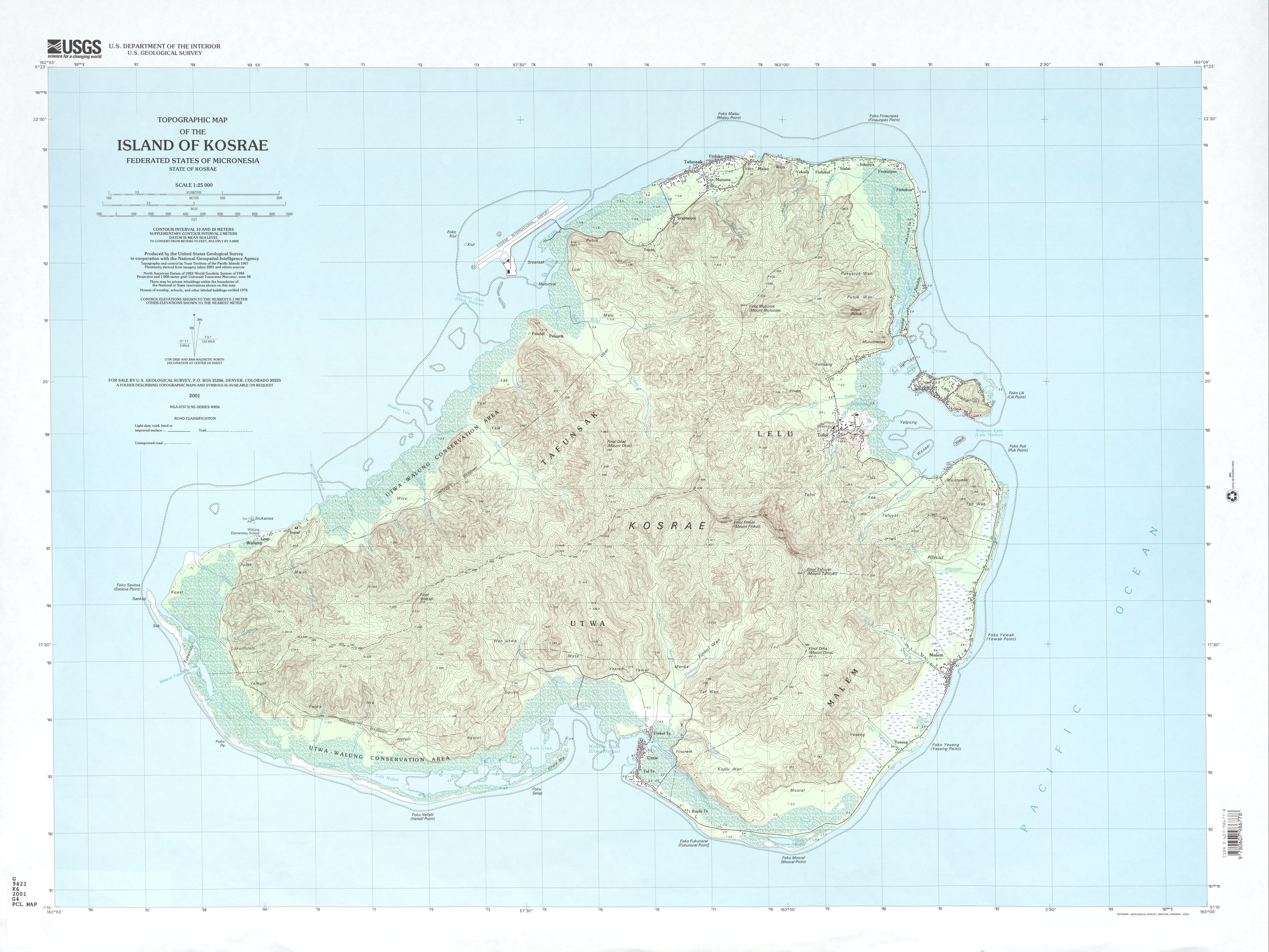 Kosrae, Federated States of Micronesia, Pacific Ocean